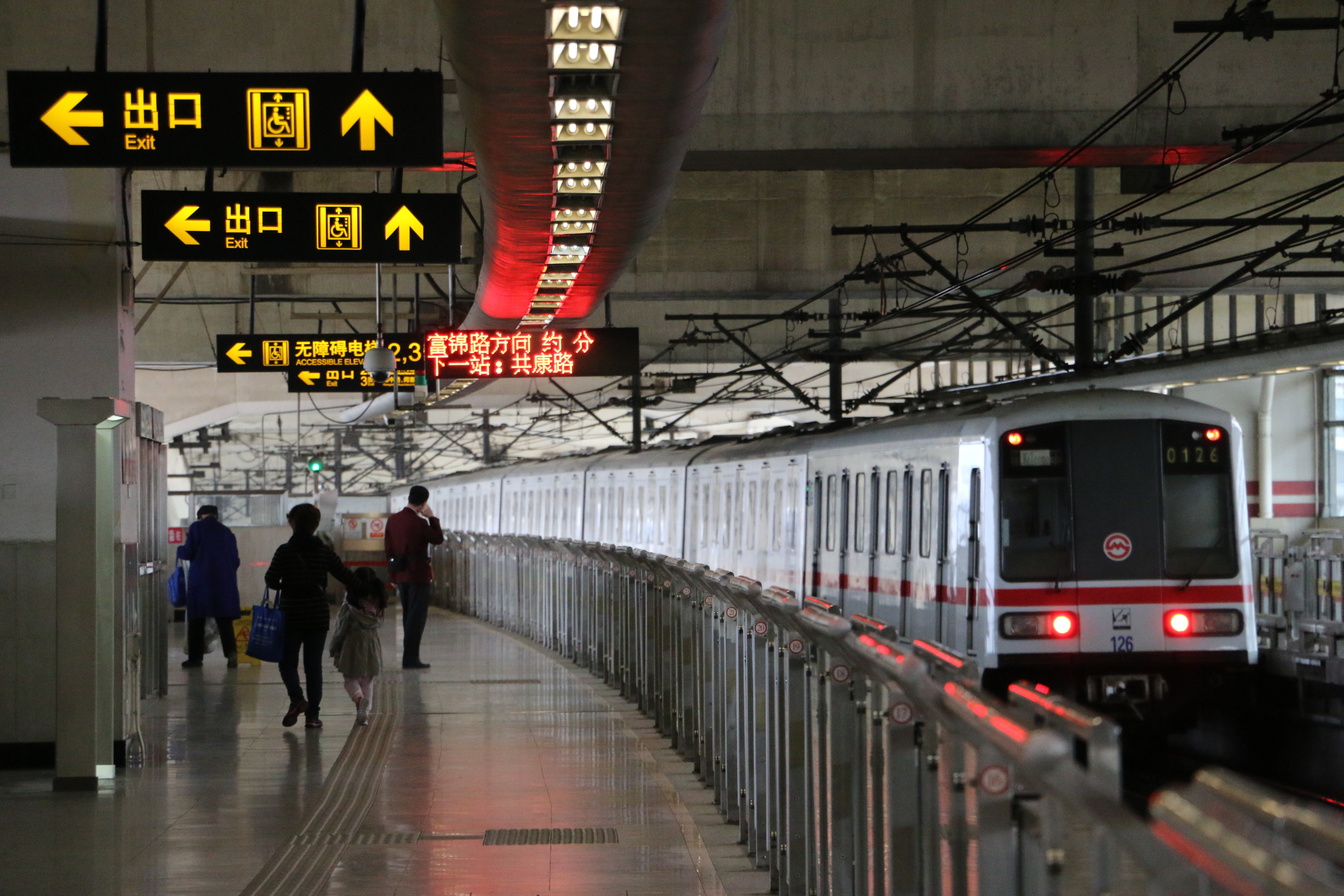 201604 Platform of Pengpu Xincun Station